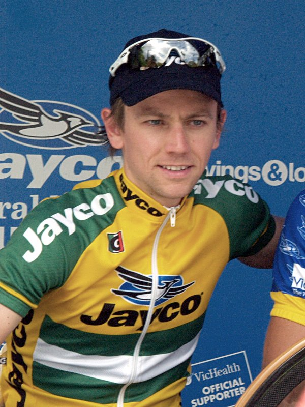 Australian cyclist Trent Lowe (Discovery Channel, riding for Jayco Australian National Team) on the podium after Stage 7 (Melbourne) of the 2007 Herald Sun Tour, having finished 3rd overall.